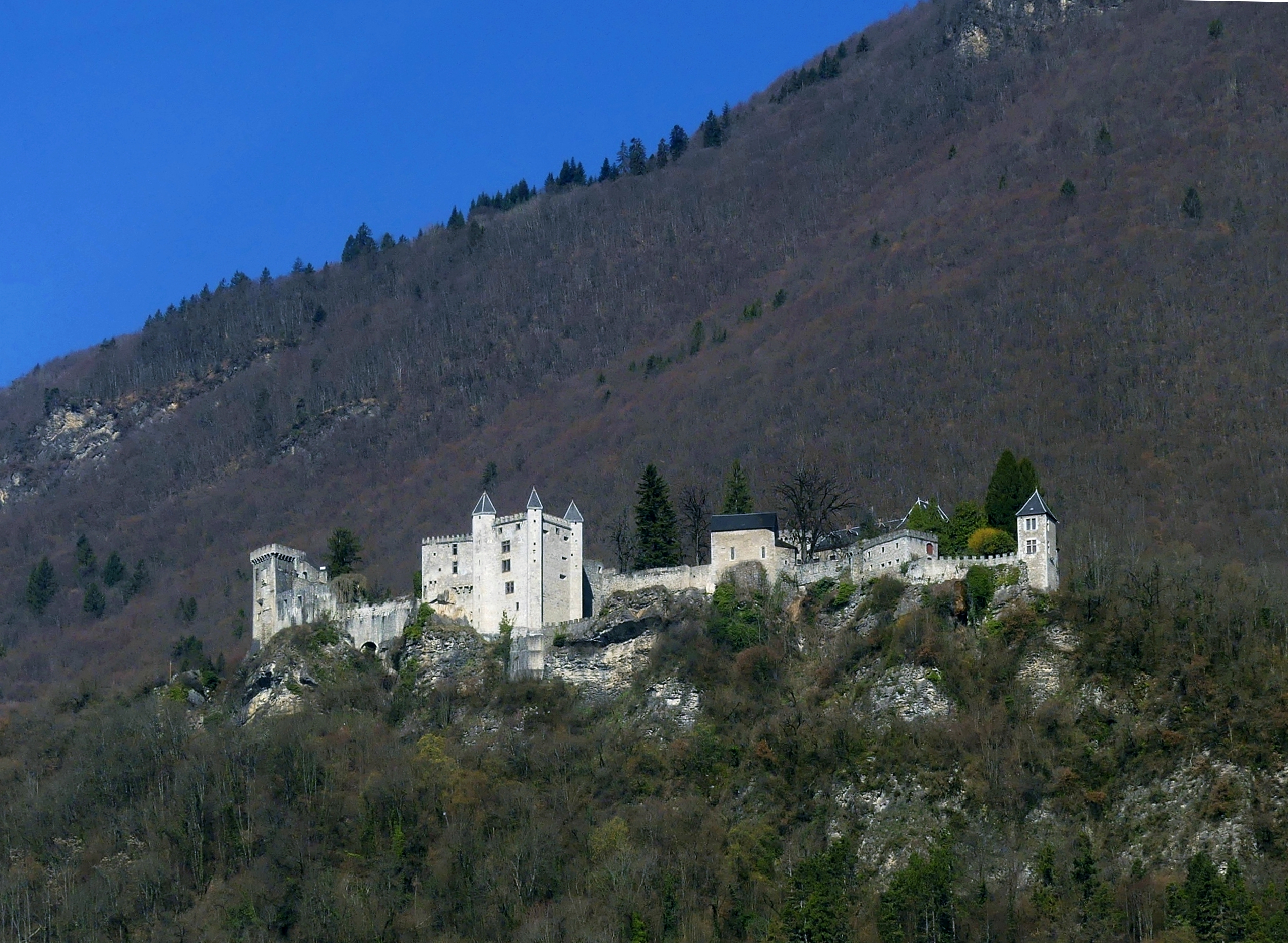 Sight, from the railway, of the château de Miolans castle, in Savoie, France.